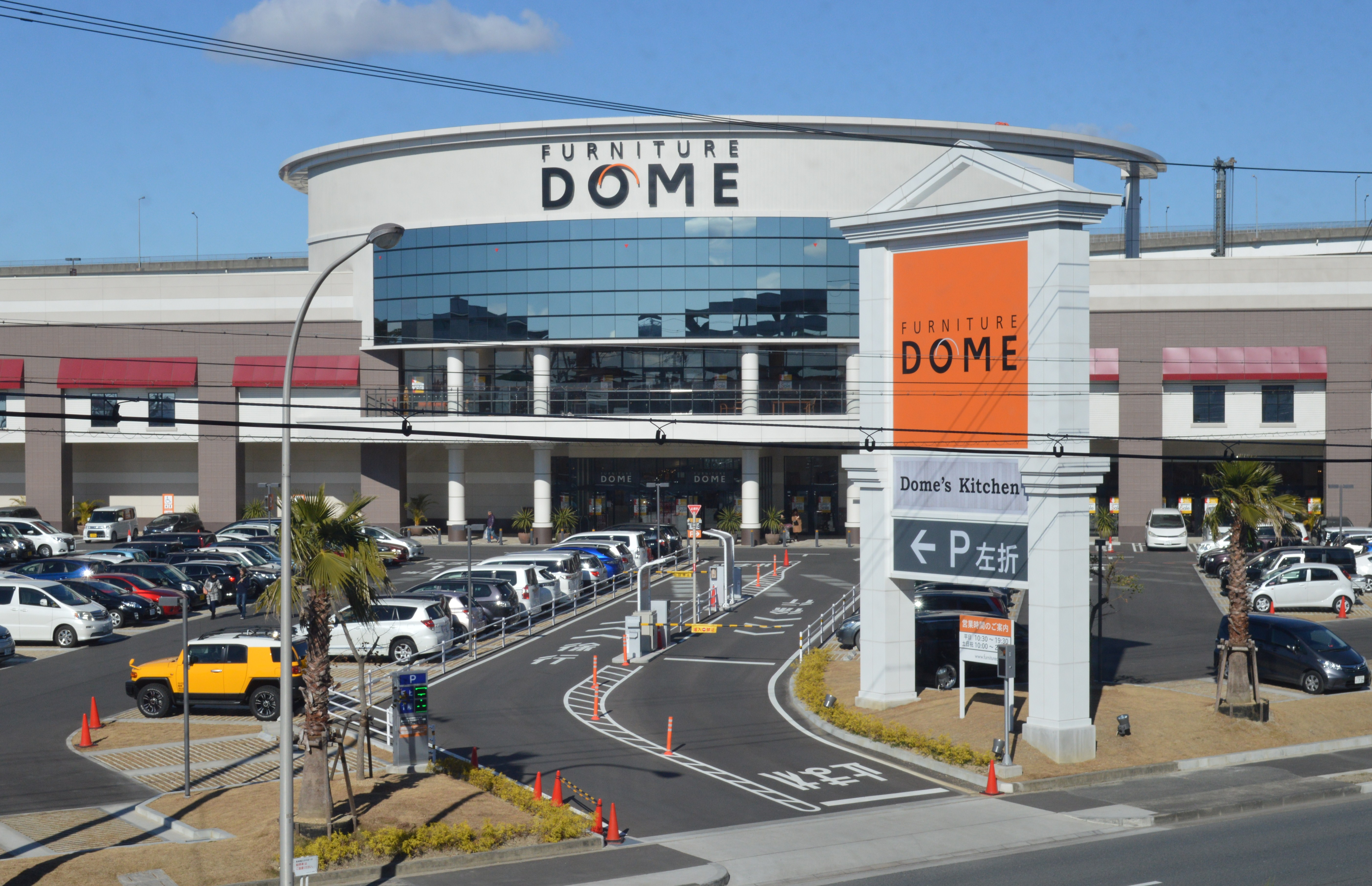 ファニチャードーム本店, 愛知県名古屋市港区(金城ふ頭)